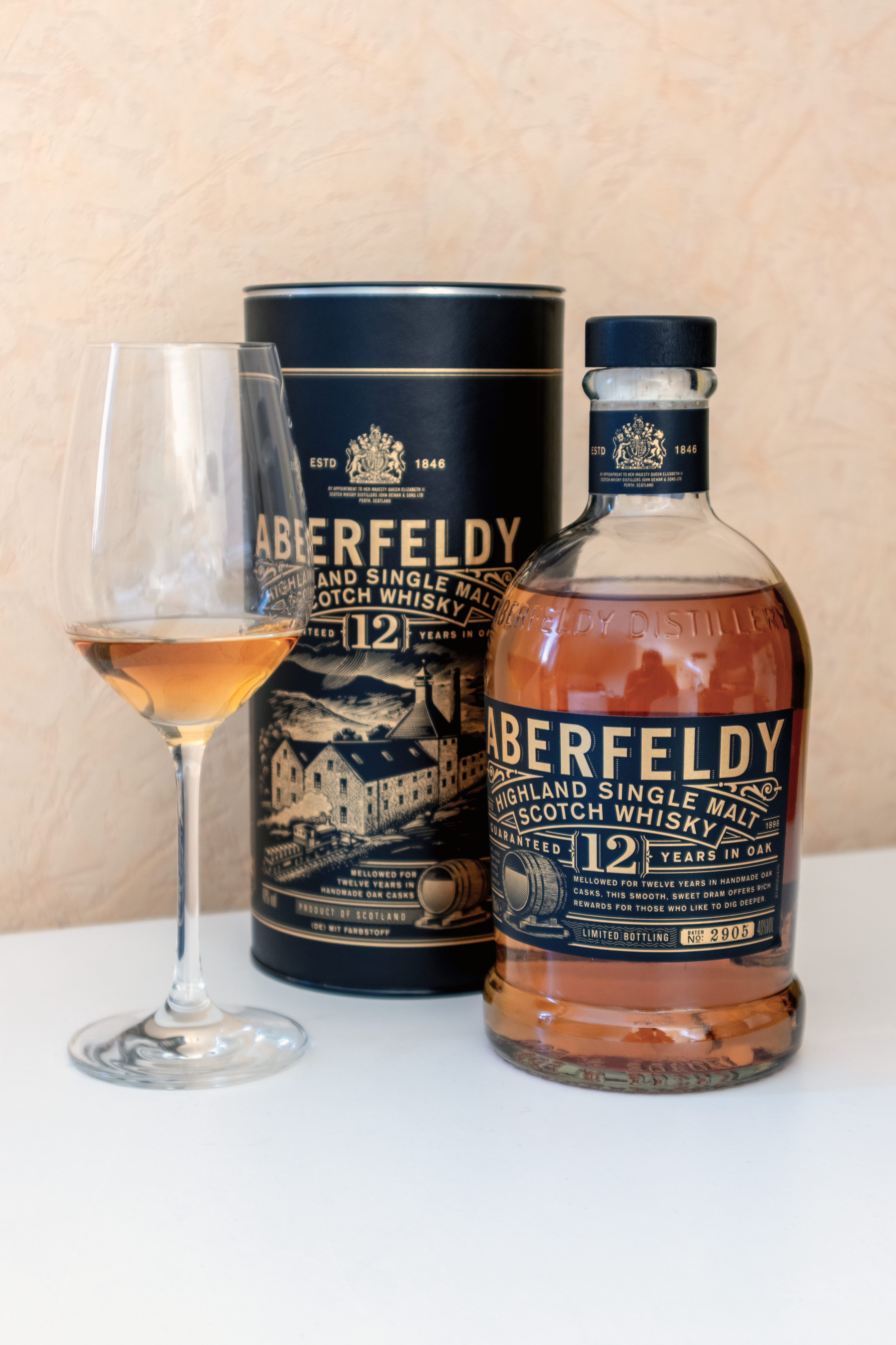 A picture of a bottle of Aberfeldy 12